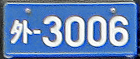 Japan diplomatic license plate 外-3006, officials from Ghana.